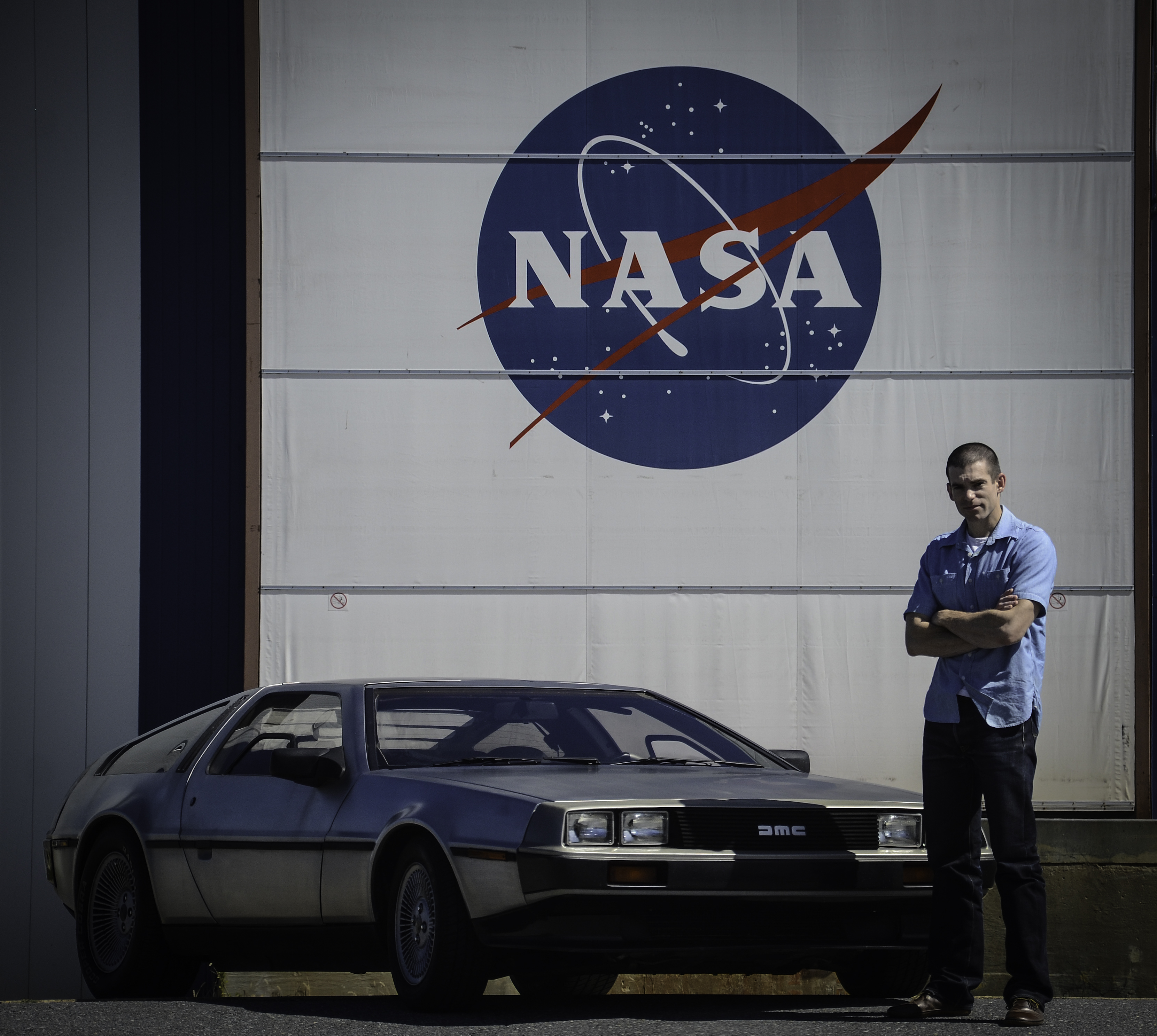 Great Scott, This is Heavy! You might see a DeLorean zipping around Greenbelt, Maryland, on Oct. 21, 2015, the day Marty McFly and Doc Brown arrive from 1985 in "Back to the Future, Part II," but don't look for flaming tread marks in its wake. The DeLorean DMC-12, commonly seen on the roads of NASA’s Goddard Space Flight Center in Greenbelt, Maryland, is better known for the version that starred as a plutonium-powered time machine in the “Back to the Future” trilogy. After some investigation, Goddard’s Office of Communications found the owner of the stainless steel, gull-winged, two-door coupe. Goddard software test engineer, Brendan Rebo bought the 1982 DeLorean off eBay about four and a half years ago. “The car attracts a lot more attention than I expected,” Rebo admitted. “I hear a lot of jokes about whether or not I’ve reached 88 miles per hour yet.” As “Back to the Future” fans around the world celebrate today, Rebo also celebrates his birthday. While the second film predicted technology, such as flying cars, that doesn’t yet exist, people can still marvel at the classic car and movie reference. Credit: NASA/Goddard/Rebecca Roth NASA image use policy. NASA Goddard Space Flight Center enables NASA’s mission through four scientific endeavors: Earth Science, Heliophysics, Solar System Exploration, and Astrophysics. Goddard plays a leading role in NASA’s accomplishments by contributing compelling scientific knowledge to advance the Agency’s mission. Follow us on Twitter Like us on Facebook Find us on Instagram